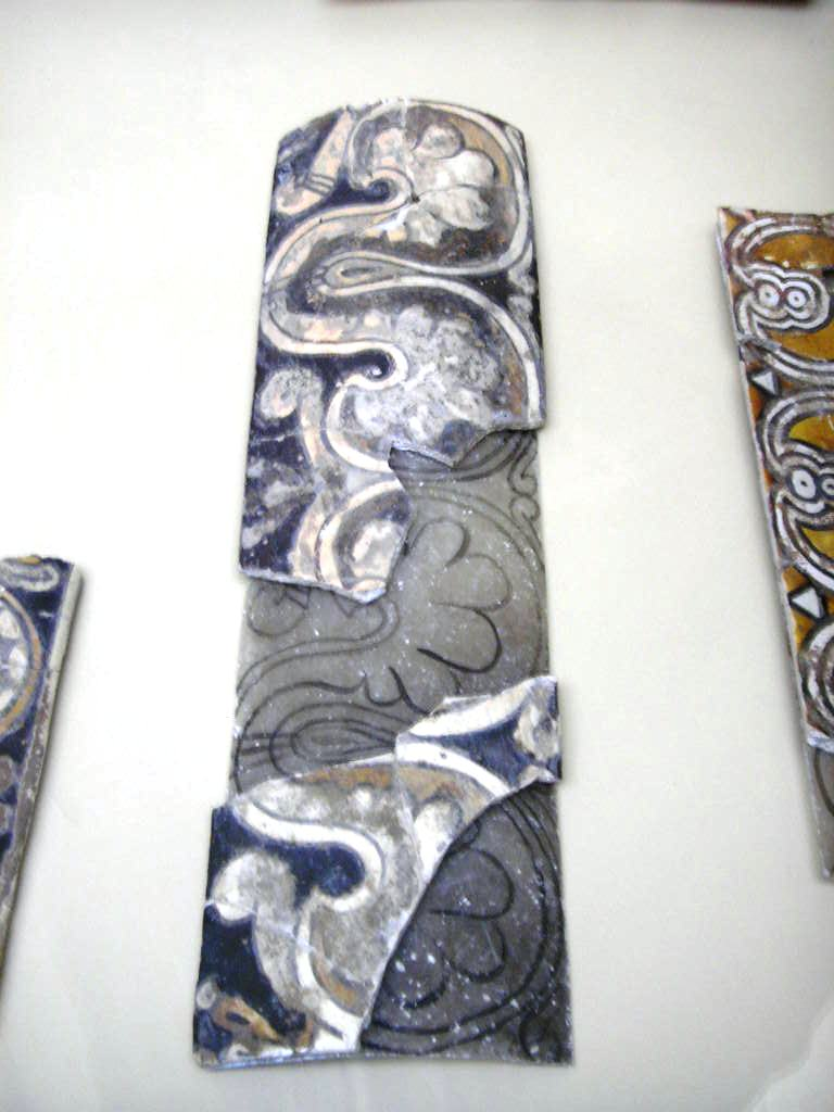 Remains of the Palace Basilica. It was brought to light in the 1937 excavations at the Second Courtyard of the Topkapi Palace. The church with three naves measured 35x21 metres. The external facade of the apse is three-sided: the inner facade is semicircular. The entrance to the atrium is on the north side. The basilica was constructed probably around the 5th century CE. It underwent repairs between the 10-12th century.